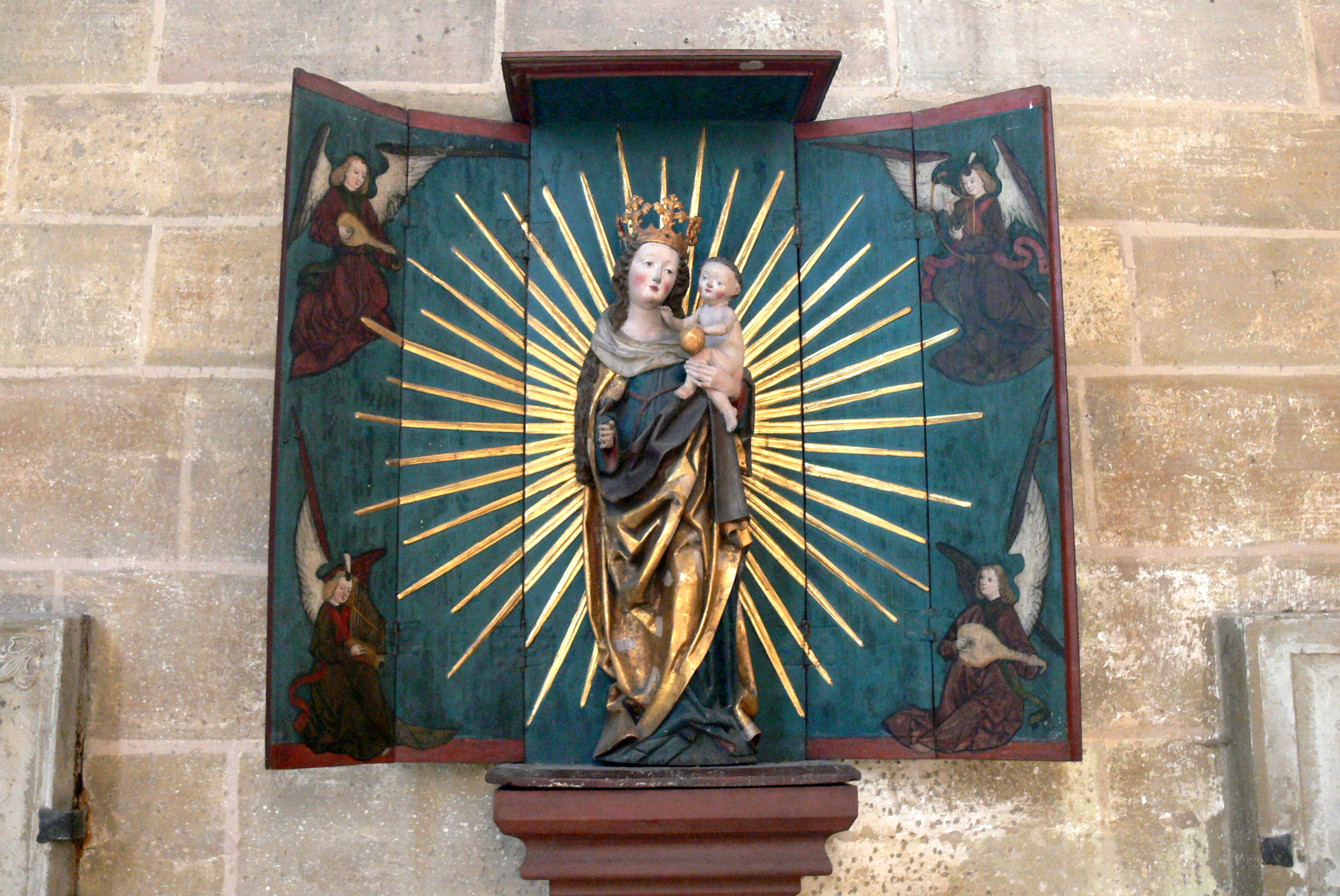 St.Andreas parish church in Weißenburg ( Bavaria ). Altar of Saint Mary ( 1500s ).